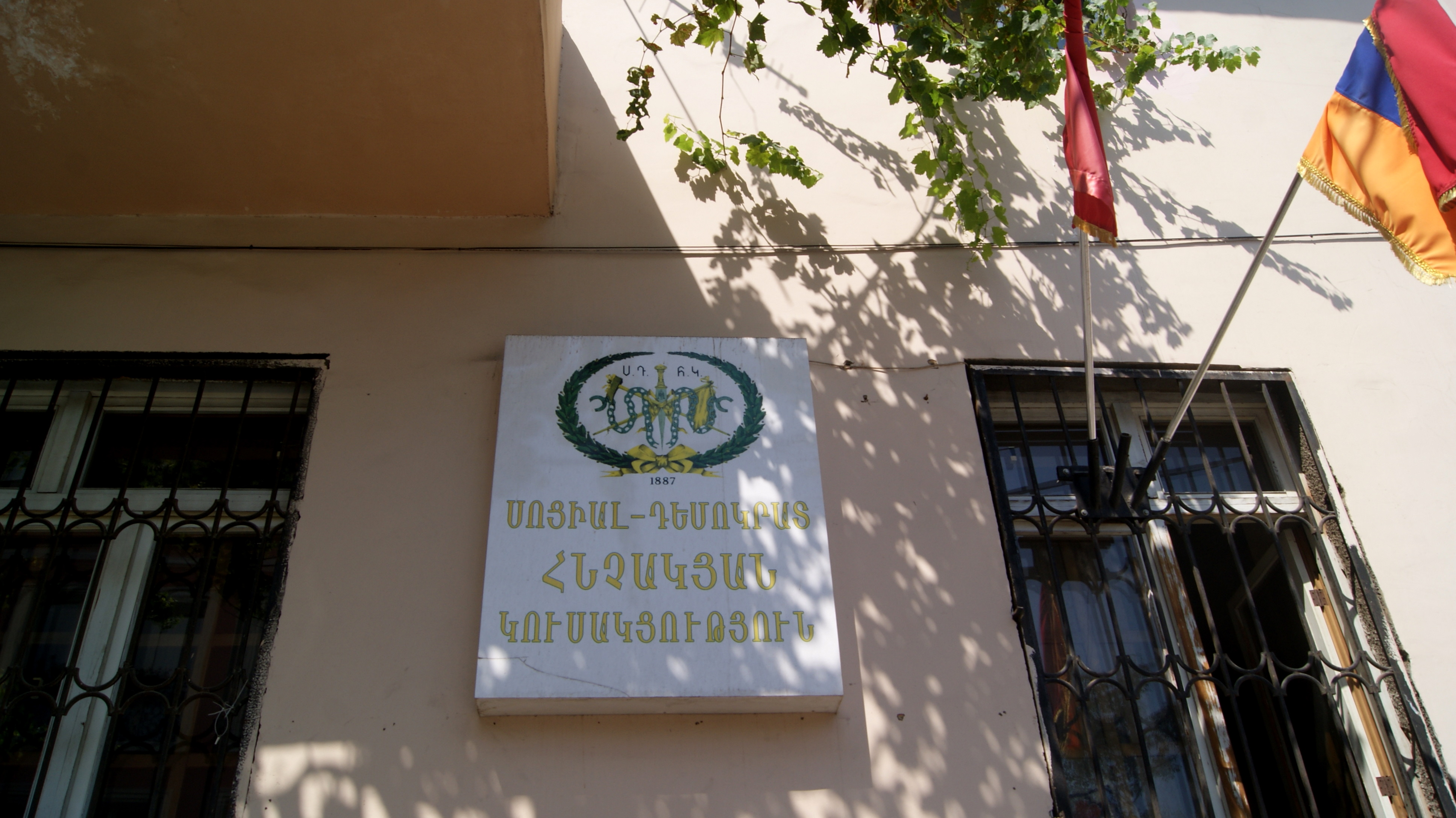 Սոցիալ դեմոկրատ Հնչակյան կուսակցության գրասենյակը Երևանի Հանրապետության փողոցում